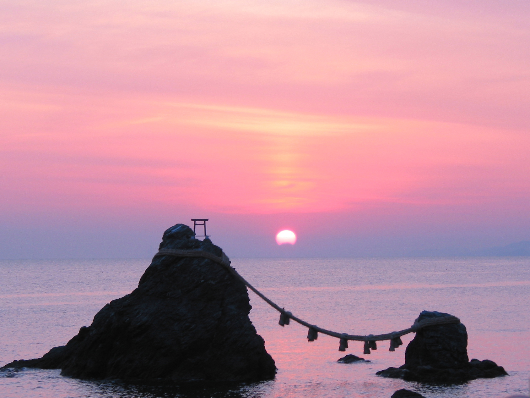 The sunrise in the direction of Mt. Fuji at the Wedded Rocks (Meoto Iwa). Silhouette underneath the rising sun is top of Mt. Fuji. I took this image at the Futami Okitama Shrine. 夏至の頃、富士山頂付近から昇る二見興玉神社夫婦岩の日の出（ご来光）。 三重県伊勢市二見町江で撮影